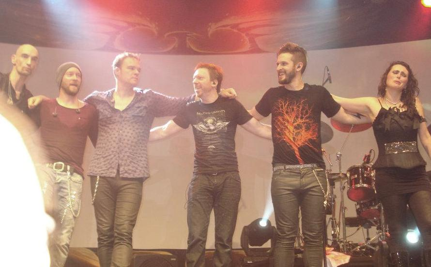 Within Temptation saying farewell after their performance in Rio de Janeiro, Brazil.